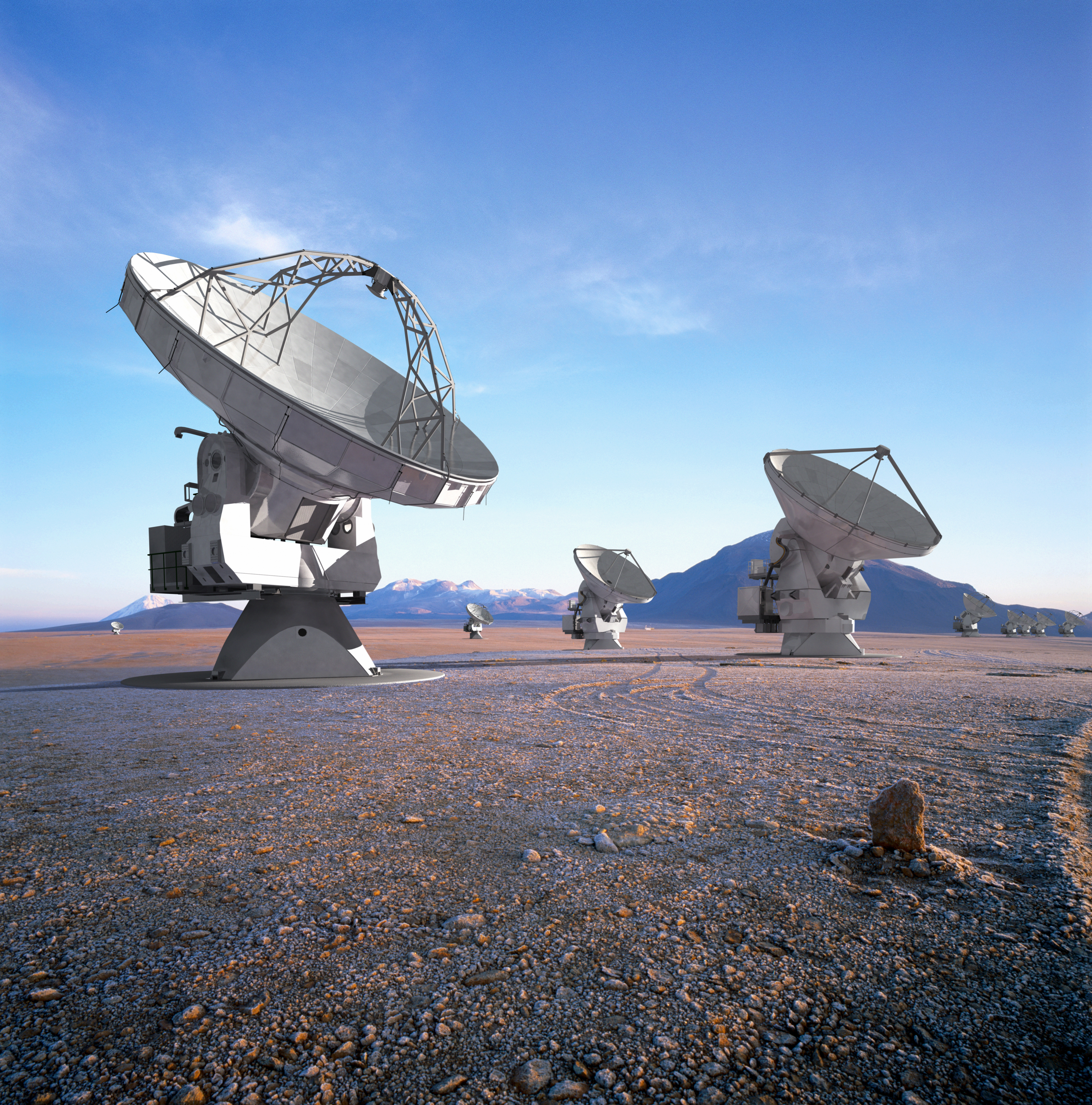 A vision of the near-future ALMA antenna array. Computer-generated models of antennas were superimposed on a real photograph and adjusted for perspective and lighting.